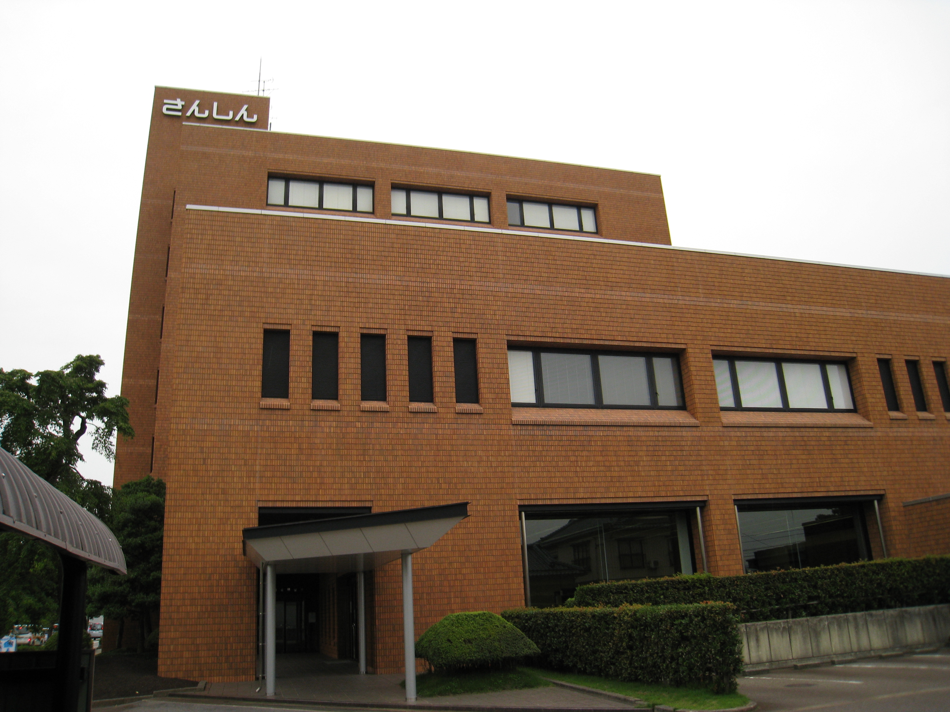 Sanjo-Sinkin. Japanese local Financial Unit. Niigata-Pref,Japan.